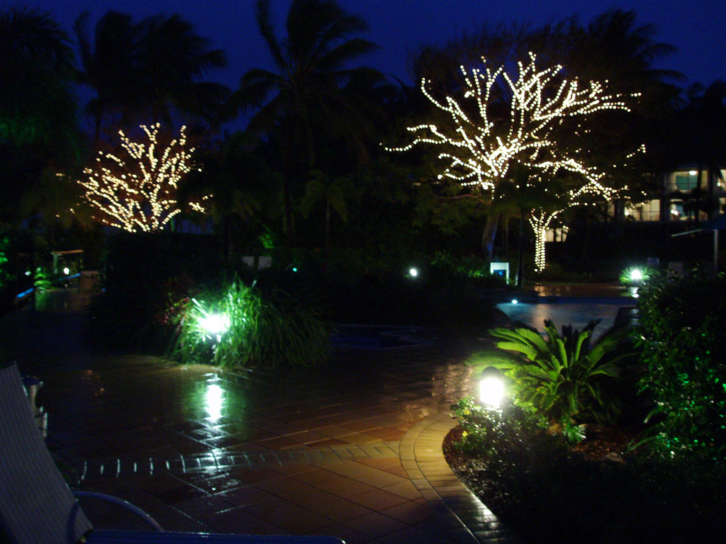 Photo of the Daydream Island pool area at night, taken on the 19th July 2005.